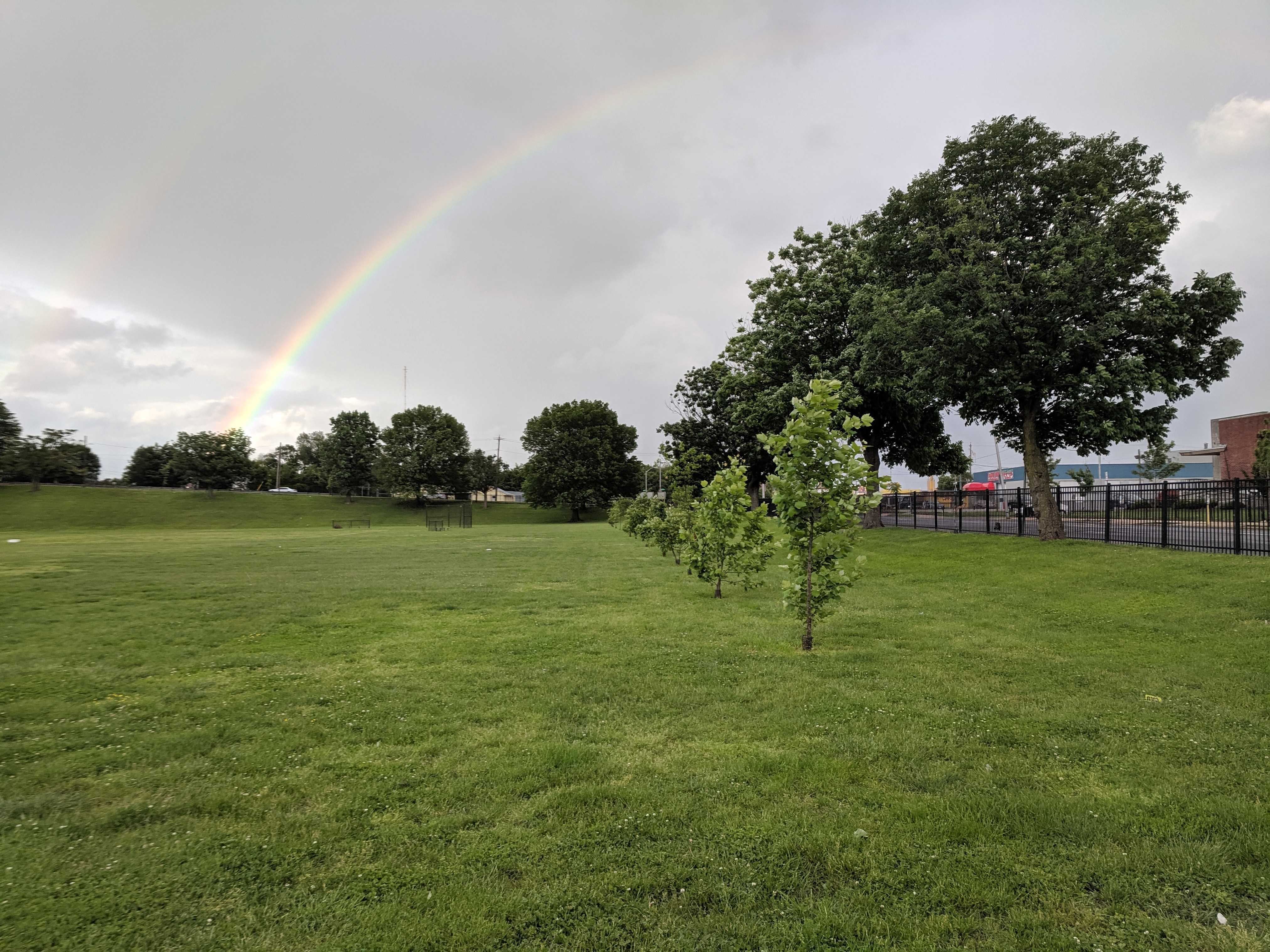 Frank C Bocek Park in the neighborhood of Madison-Eastend, East Baltimore, a neighborhood that once was home to many Czech/Bohemian immigrants. Locals used to nickname the park "the clay hill" because children would dig little caves into the sides of the hill in the park and play fort. There was a swamp behind the park, earning the surrounding neighborhood the title of "Swampoodle". Amtrak's Northeast Corridor tracks lie to the north of the park, East Madison Street to the south, and Edison Highway to the east. "Bocek" is a Czech surname, but historians don't seem to know who Frank C Bocek was.